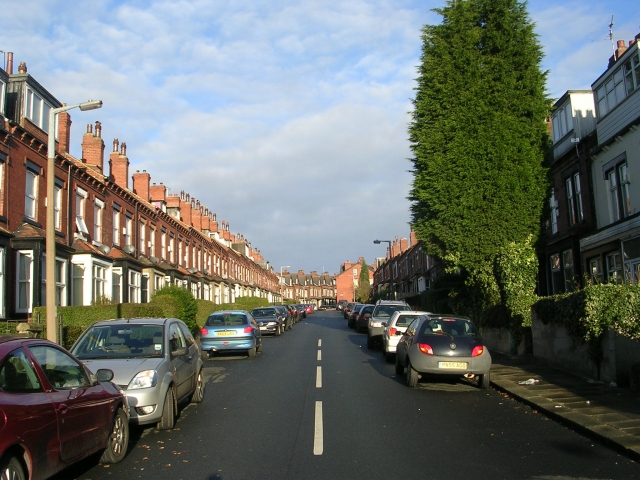 Headingley Avenue - Canterbury Drive